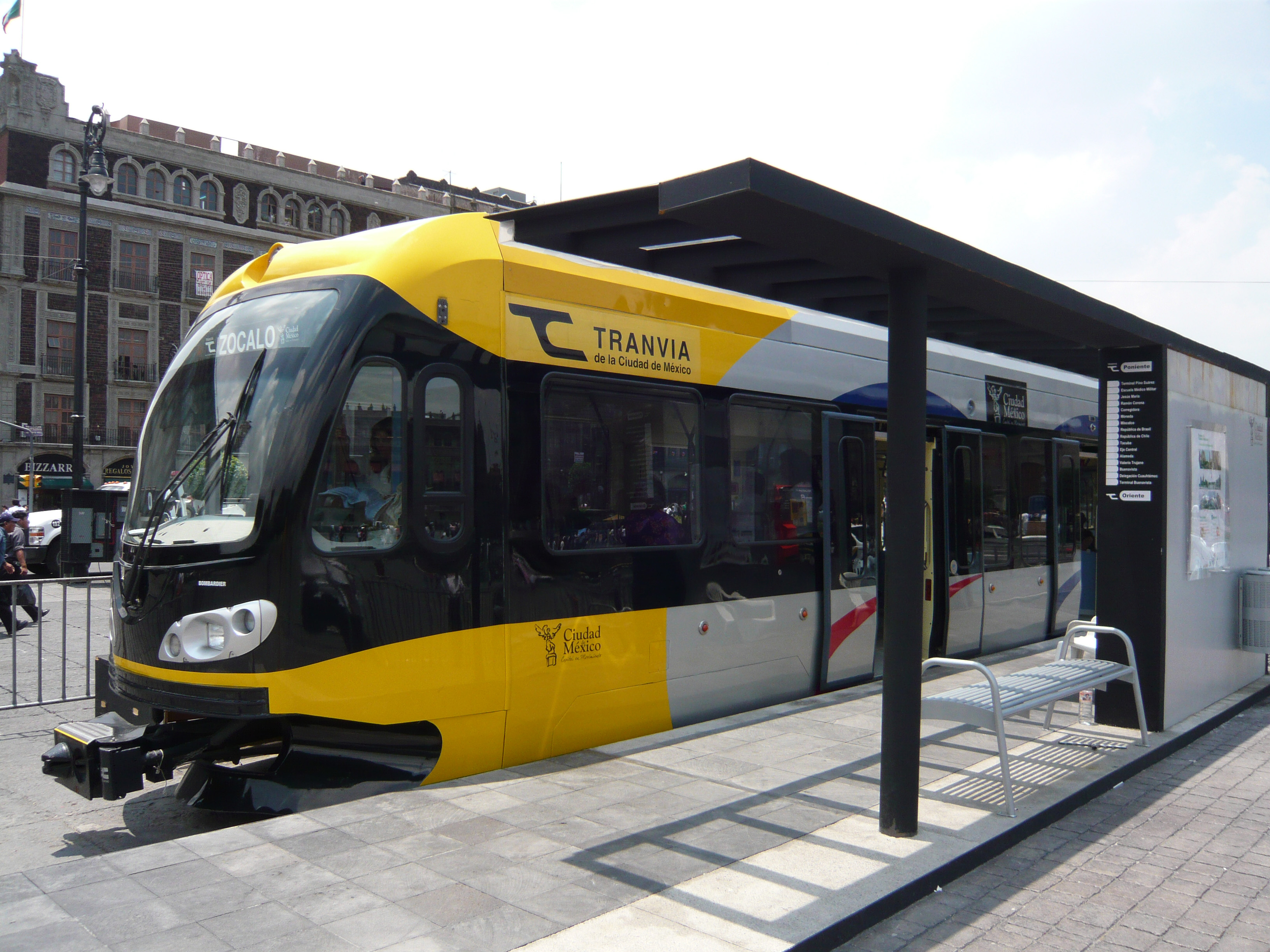 A circa 2002-built mock-up of half of a Bombardier Flexity tram/light rail car for Minneapolis' Hiawatha Line, shown while later placed on temporary display in Mexico City, in summer 2008, to publicize a planned new tramway there. The tramway project was cancelled in 2010.